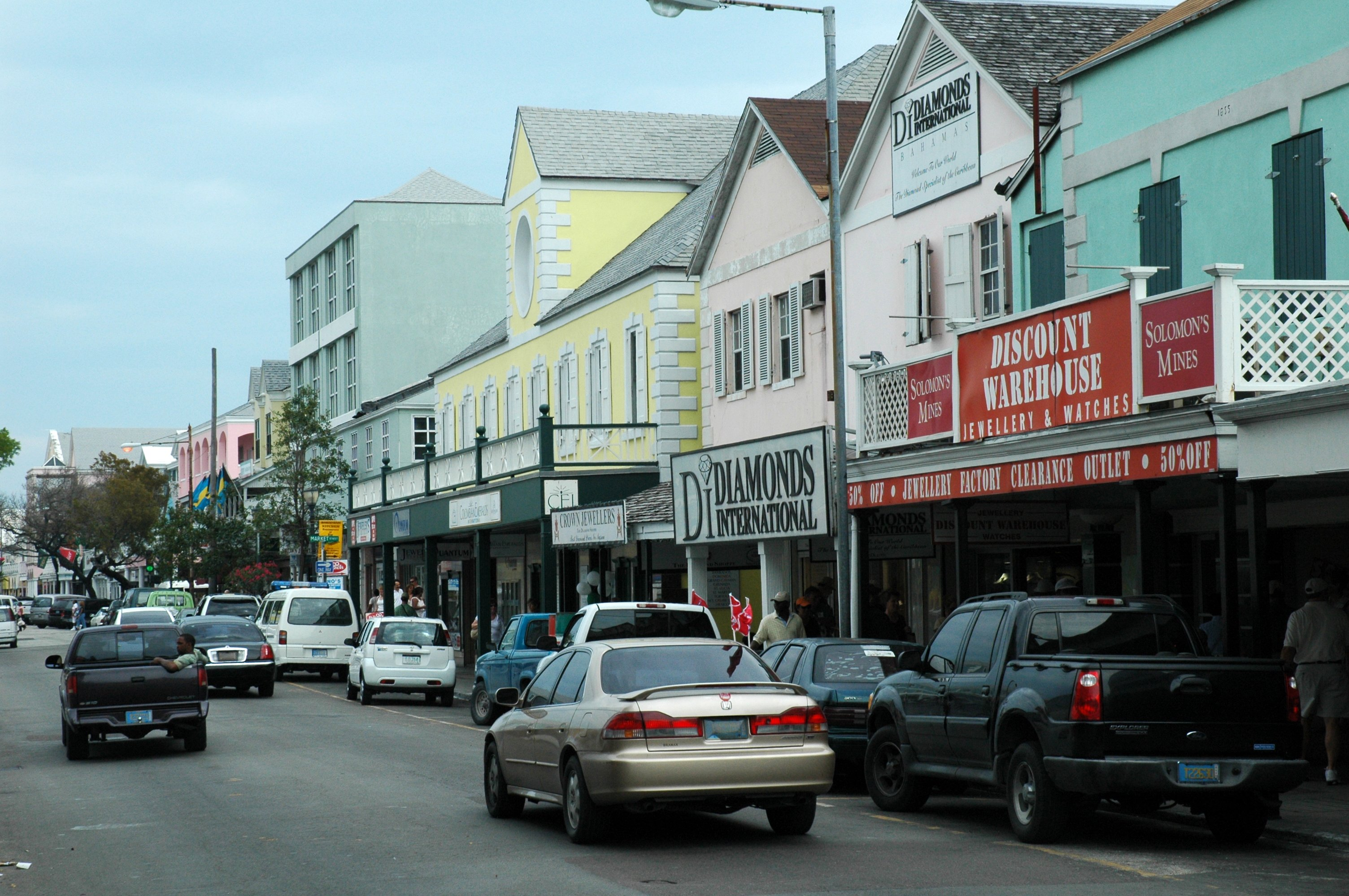 Tacky Bay Street with discount jewelry shops.